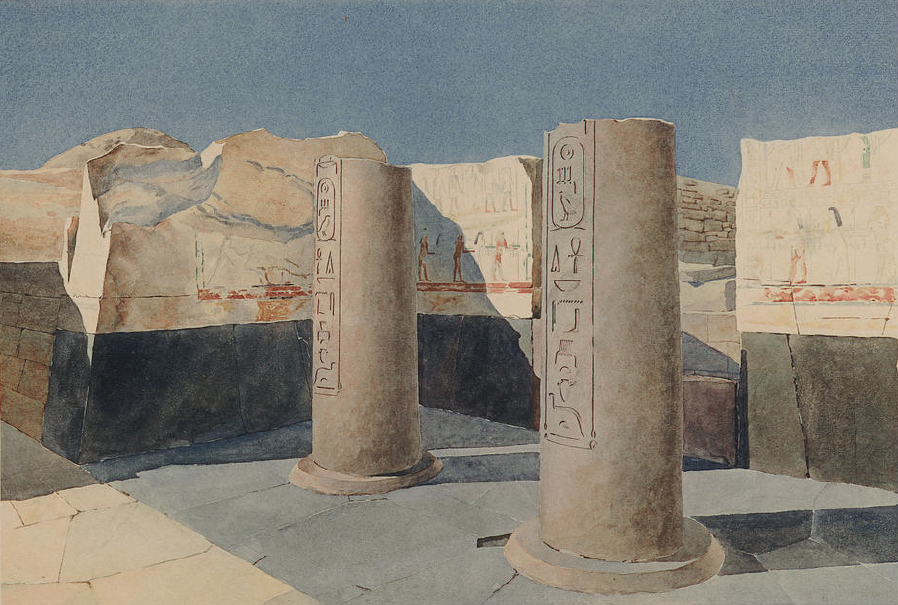 Painting of the side entrance to Sahure's pyramid complex realized in 1910 during excavations by L. Borchardt (1863 – 1938). Excavation report available copyright-free online at